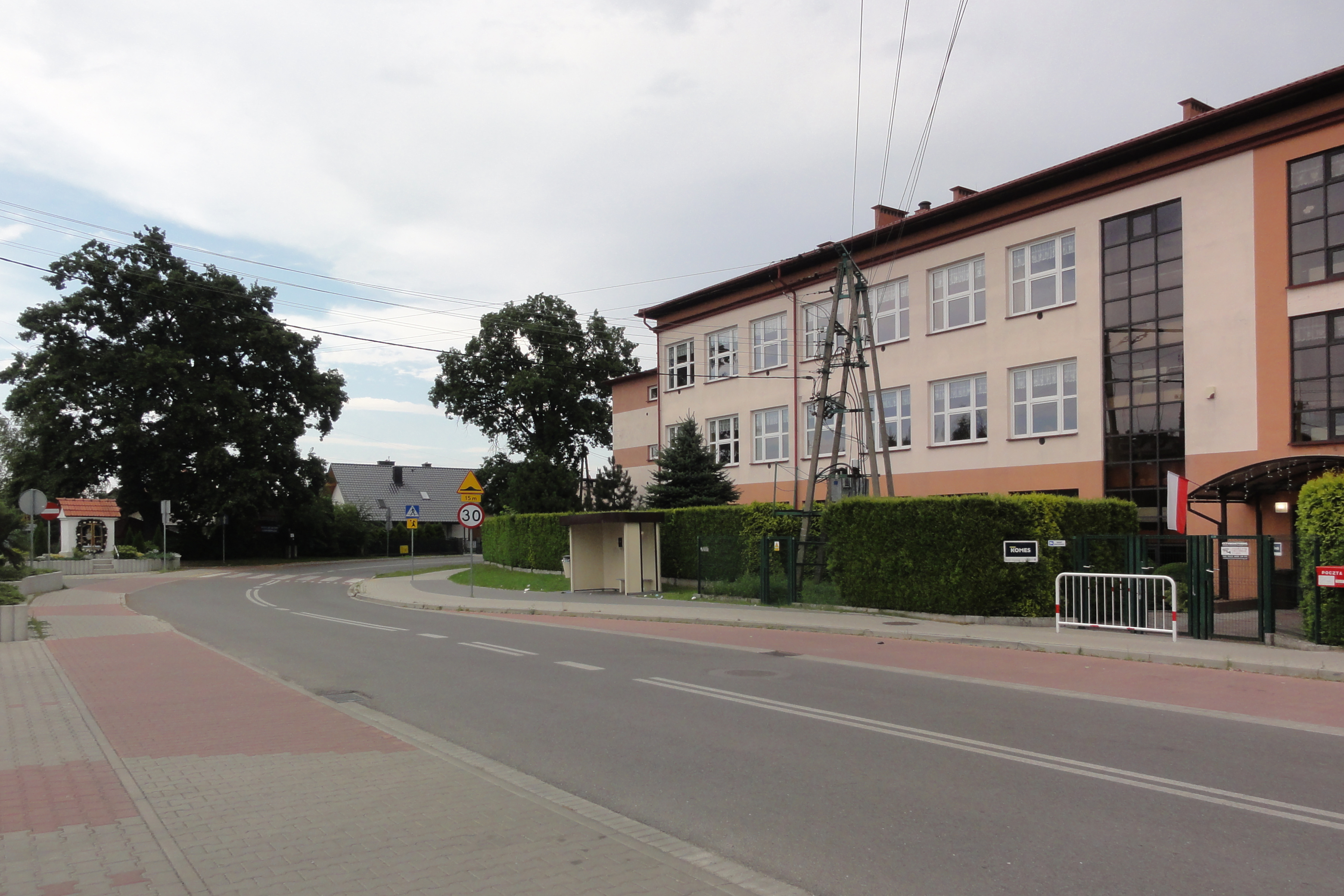 Zaborze, middle school and a chapel